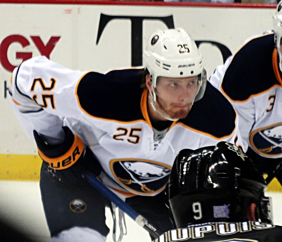 Buffalo Sabres forward Mikhail Grigorenko skates against the Pittsburgh Penguins, October 5, 2013, at Consol Energy Center in Pittsburgh, PA.